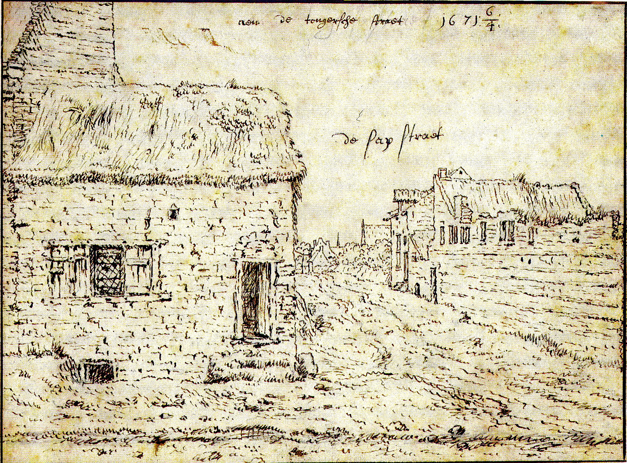 View of Abtstraat (here "Sapstraat") as seen from Tongersestraat, Maastricht, Netherlands, by Valentin Klotz,1671.